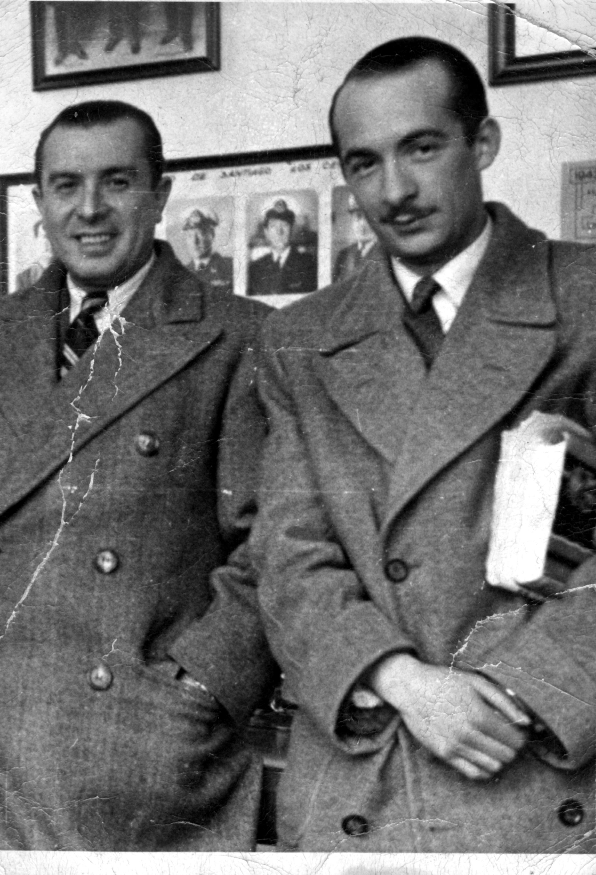 President of Chile Gabriel González Videla with the deputy minister of Economy and Trade, Raúl Fernández Longe.